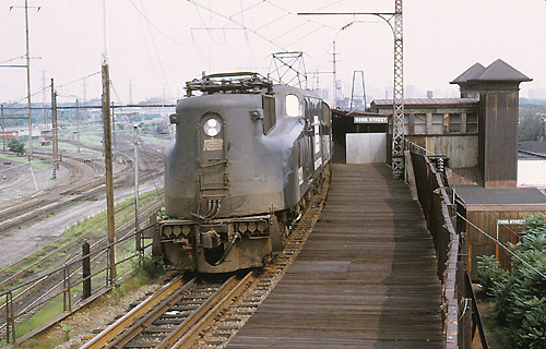 A westbound train headed by a GG1 passing through 52nd Street station in July 1973. GG1 were normally only used for long-distance service; this may have been a train using the Manayunk Line to reverse direction.